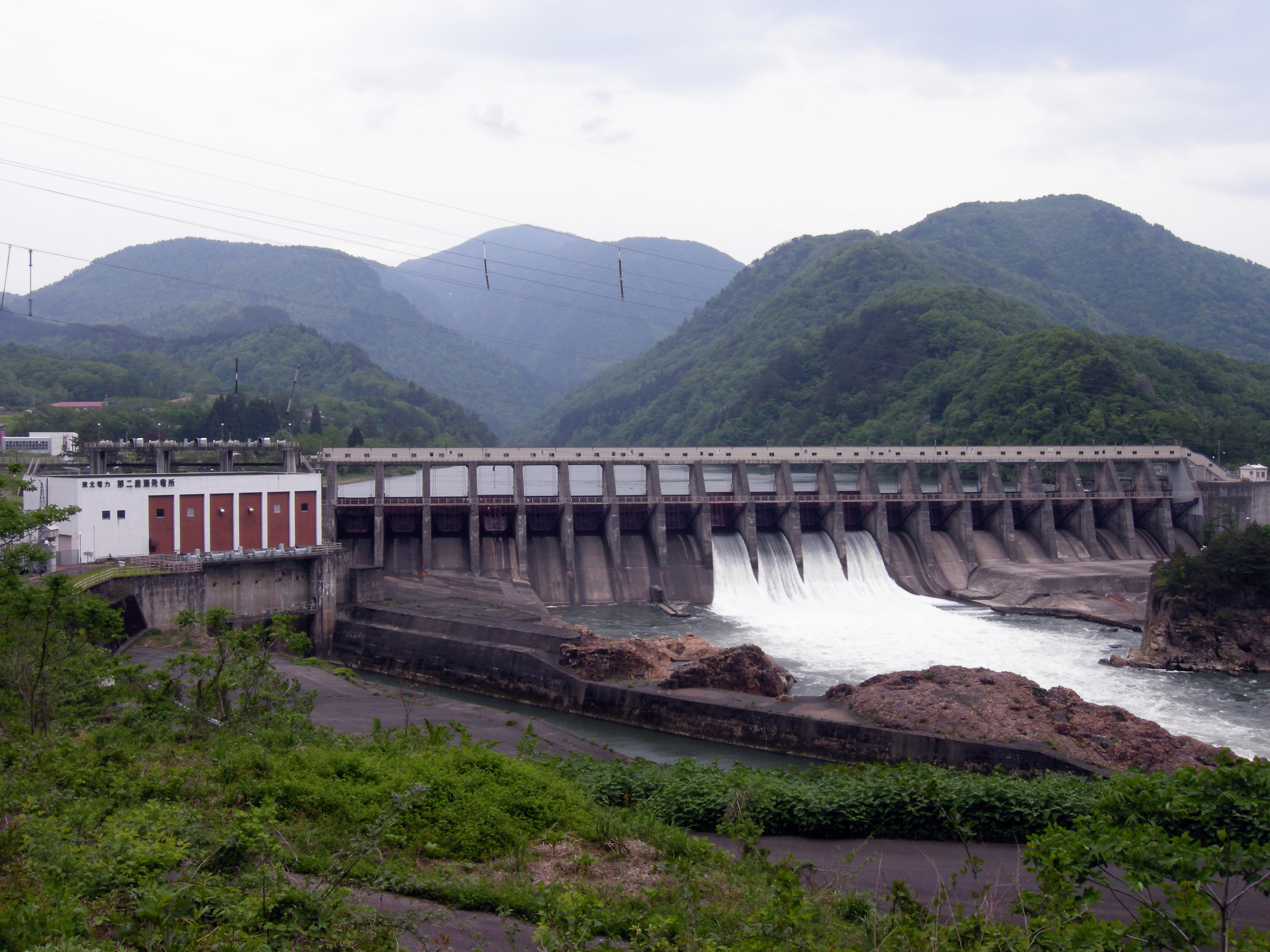 Hydro-electric power station